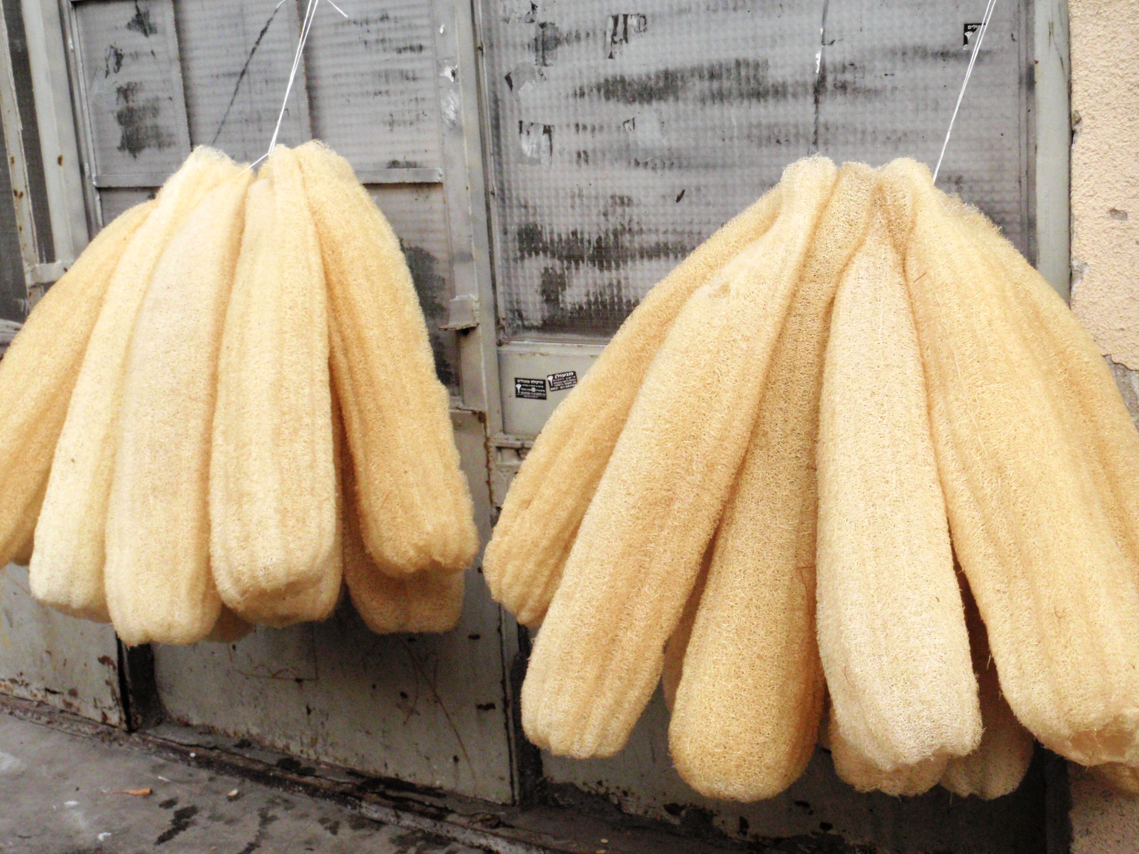 Luffa sponge